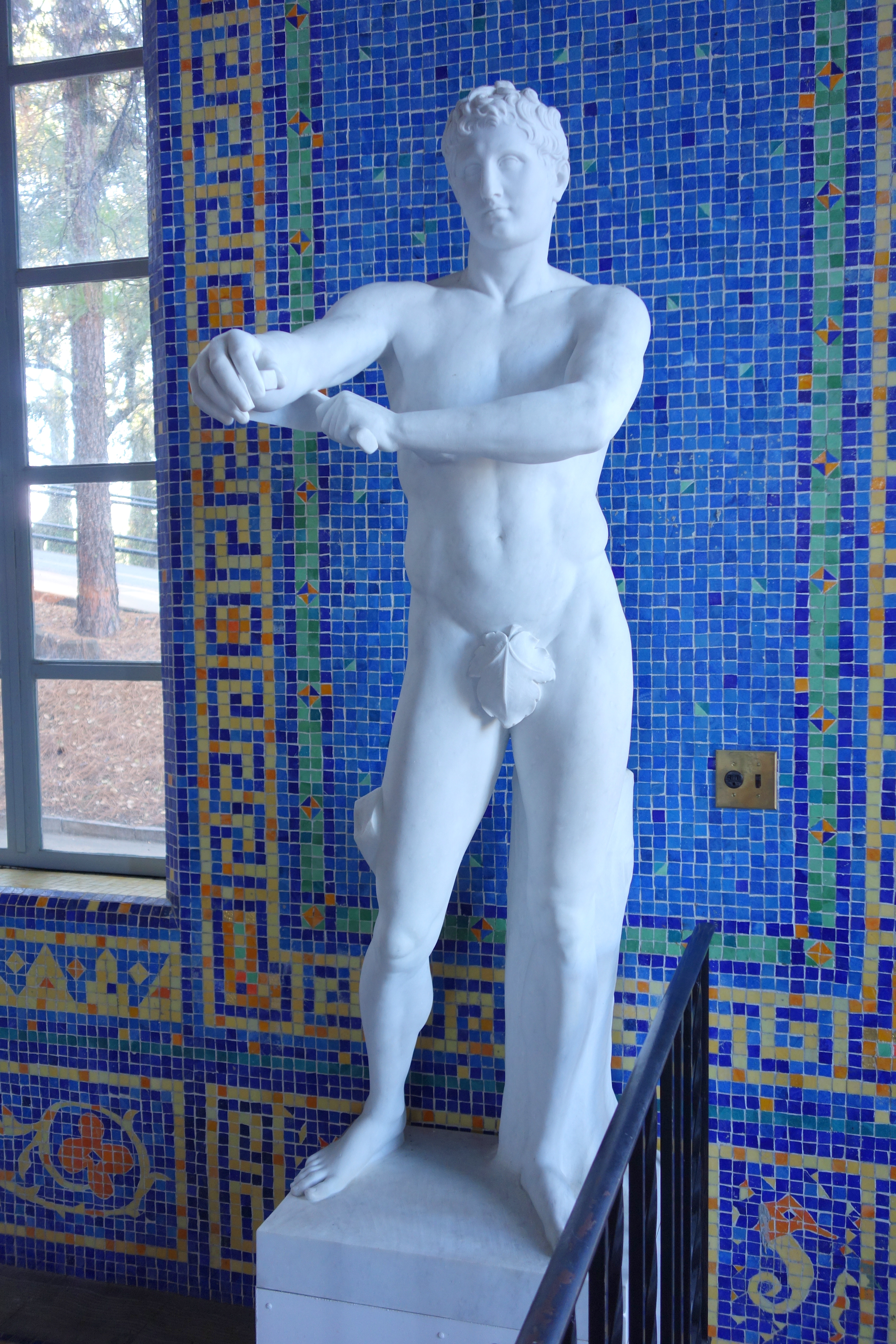 Artwork at the Hearst Castle, San Simeon, California, USA. Photograph was permitted without restriction in and around the castle. All artwork is old enough so that it is in the public domain.